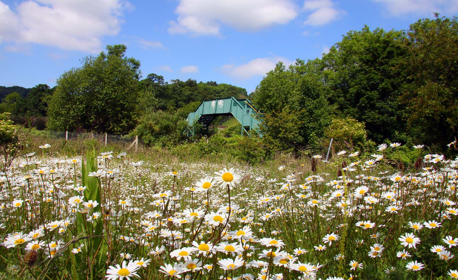 Ox-eye daisies by the railway